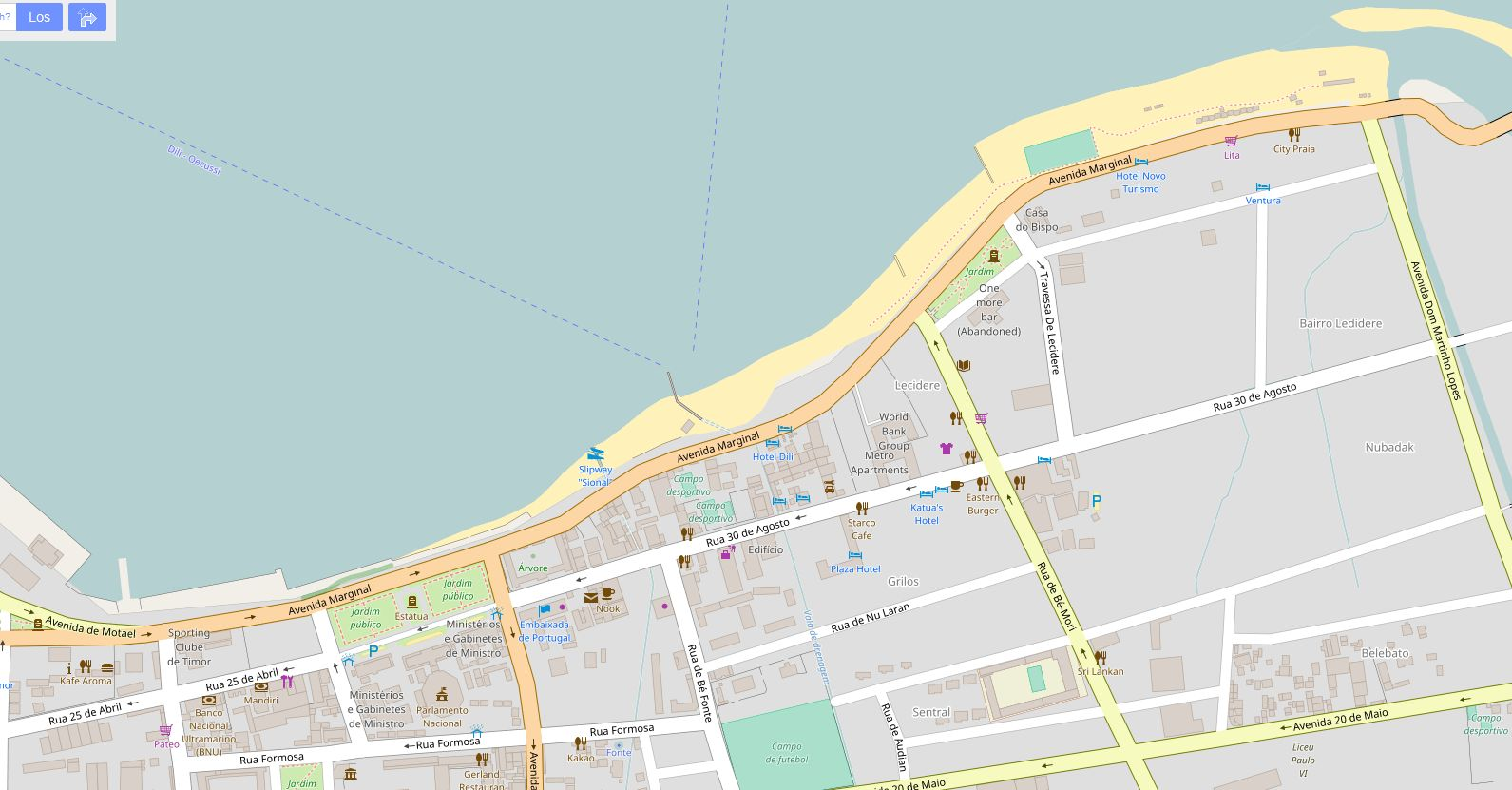 Template:DeS This map may be incomplete, and may contain errors. Don't rely solely on it for navigation.